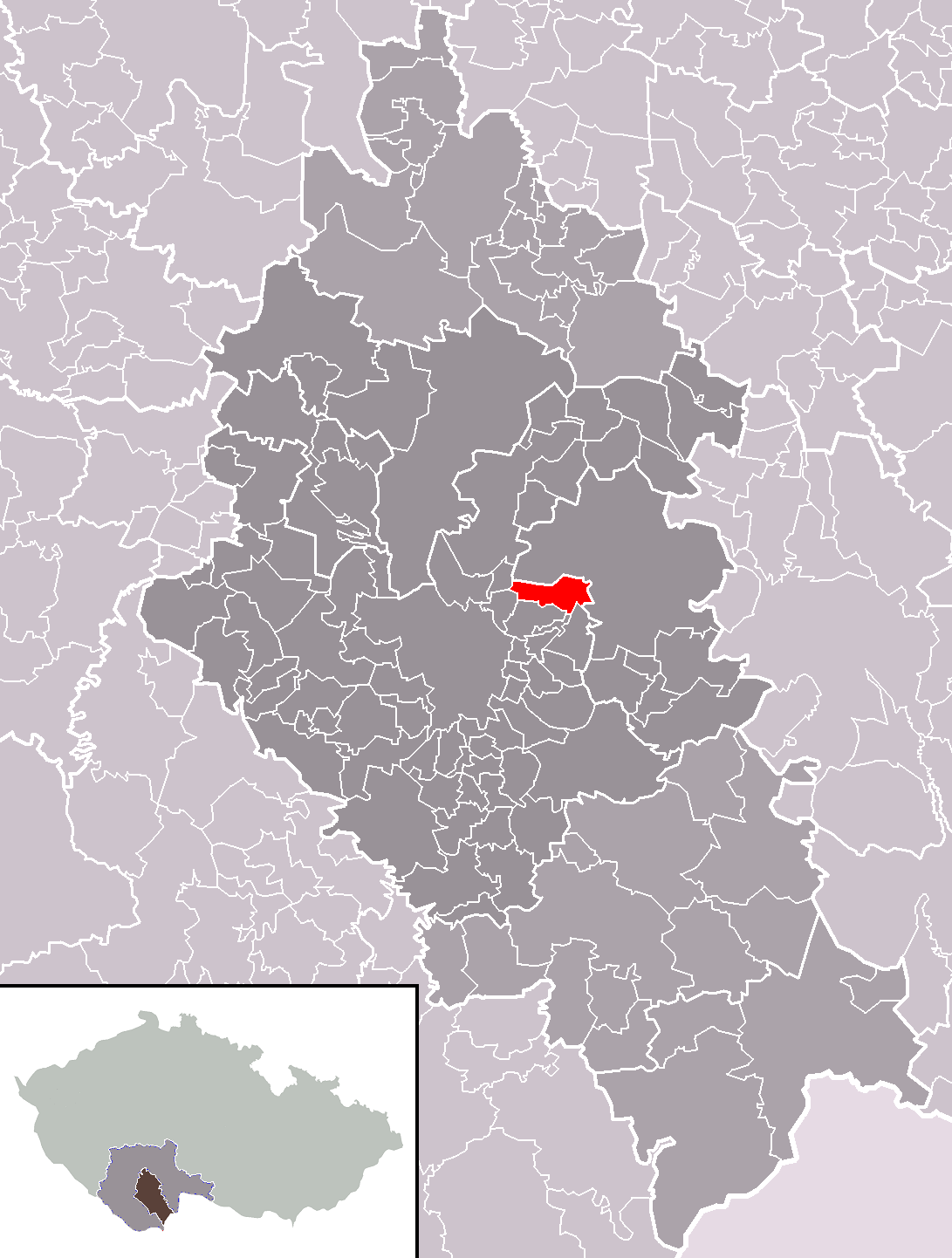 Location of Libníč municipality within České Budějovice District and administrative area of České Budějovice as a Municipality with Extended Competence.